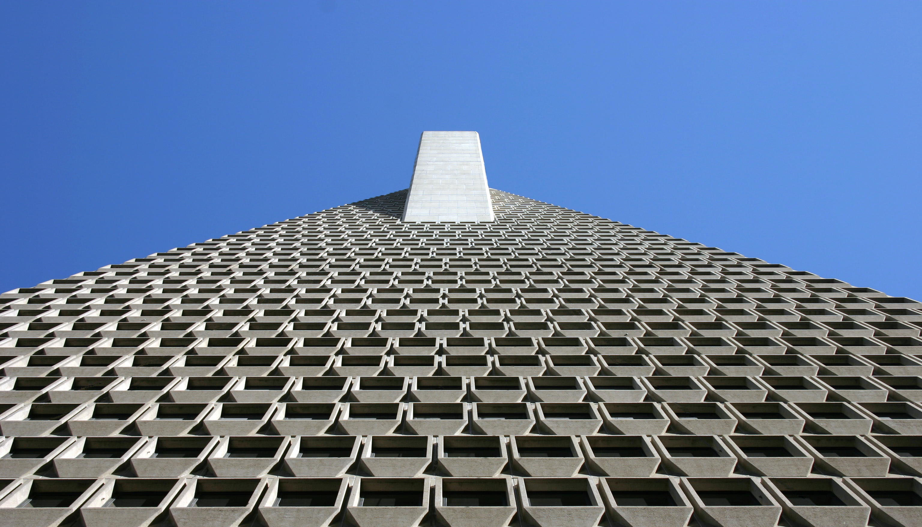 Base of the TransAmerica Pyramid in San Francisco, California